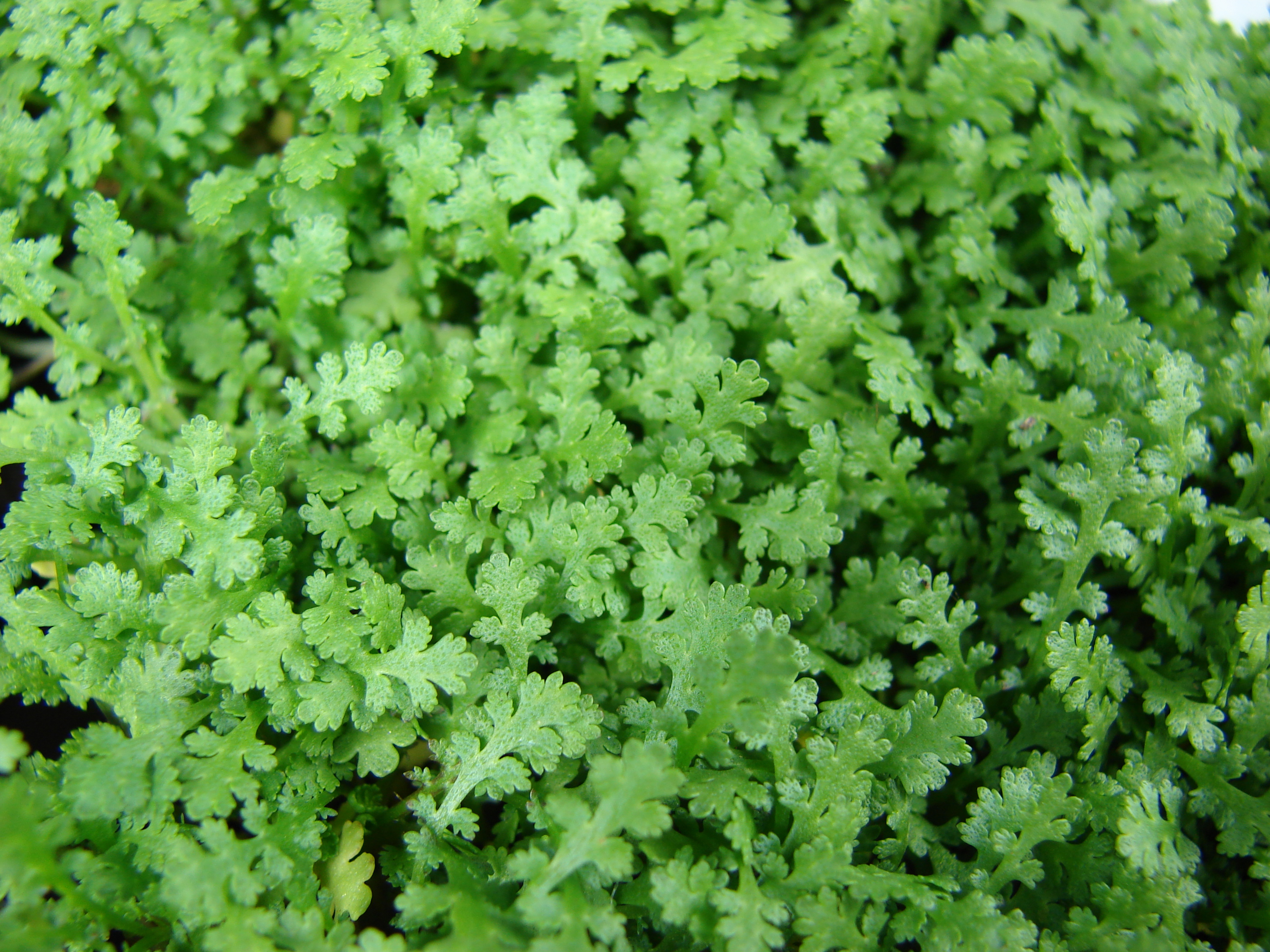 Leptinella gruveri (miniature brass buttons leaves). Location: Maui, Kula Ace Hardware and Nursery